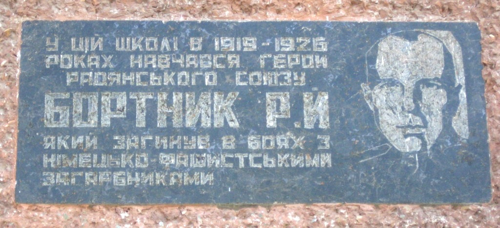 Pluzhne. Memorial-1